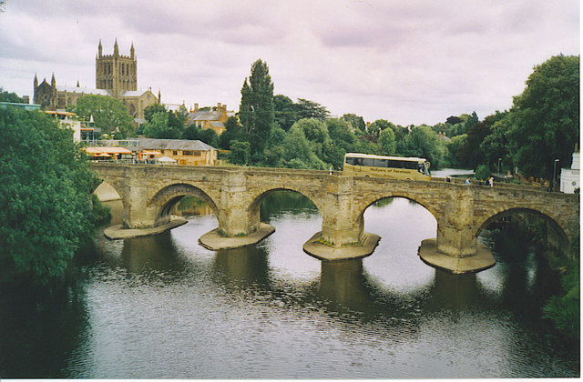 Hereford Cathedral and Wye Bridge